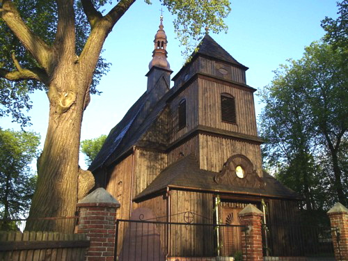 Saint Michael Archangel church in Domachowo, Poland